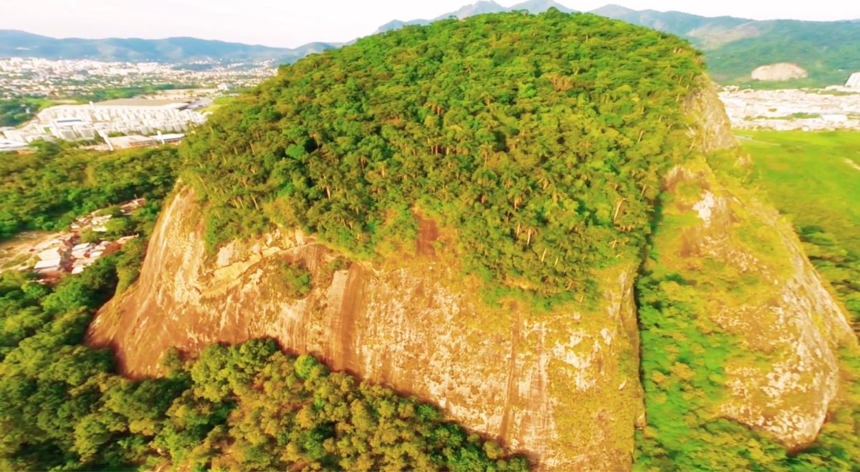 partial view of Pedra da Panela